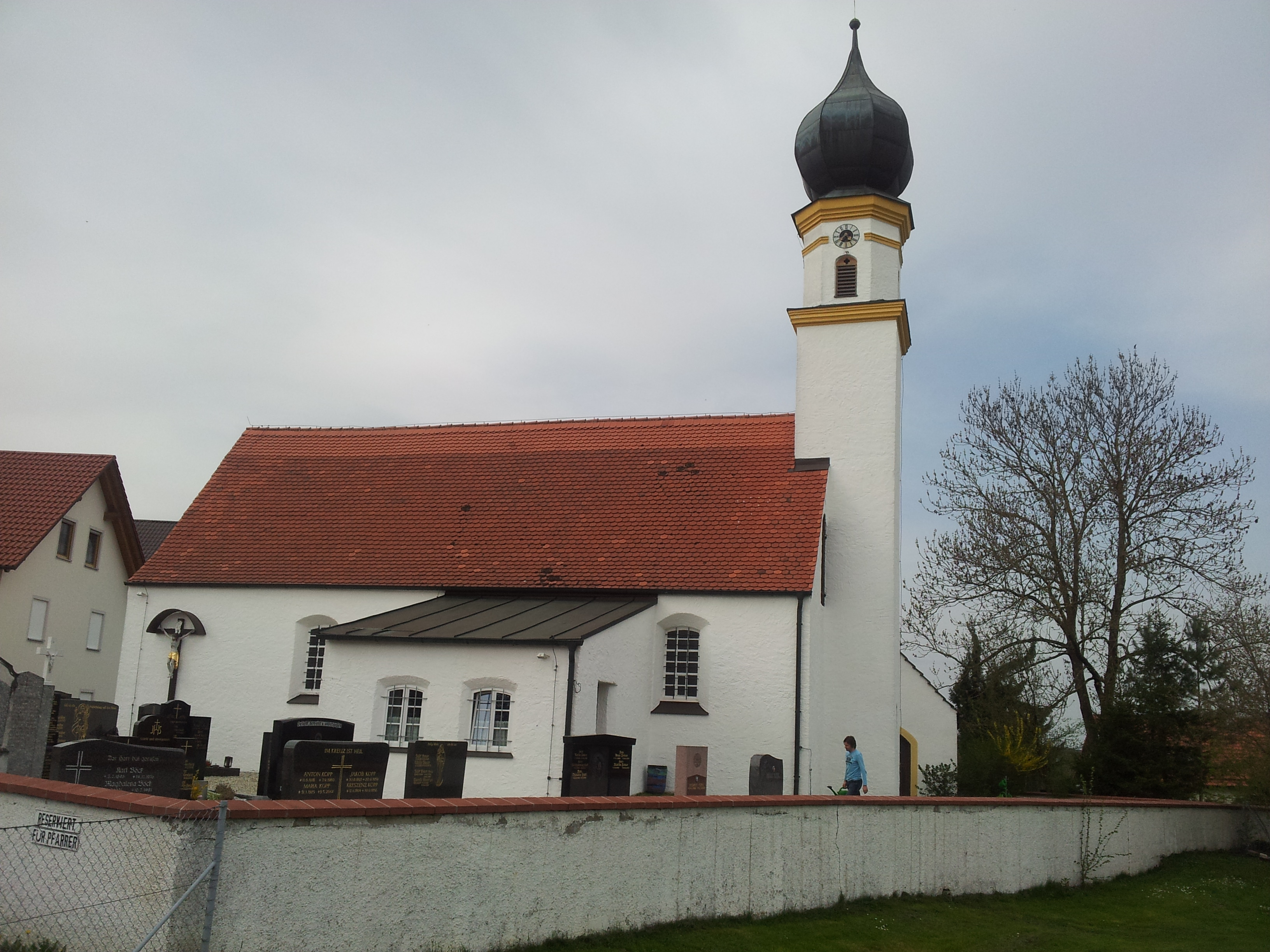 Catholic Church St. Valentin (Gerlhausen)